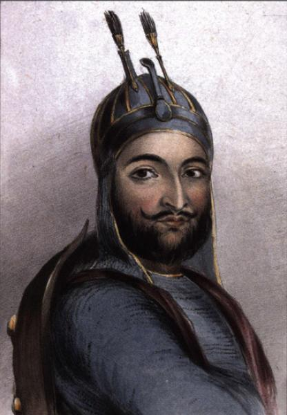 Mohammad Akbar Khan